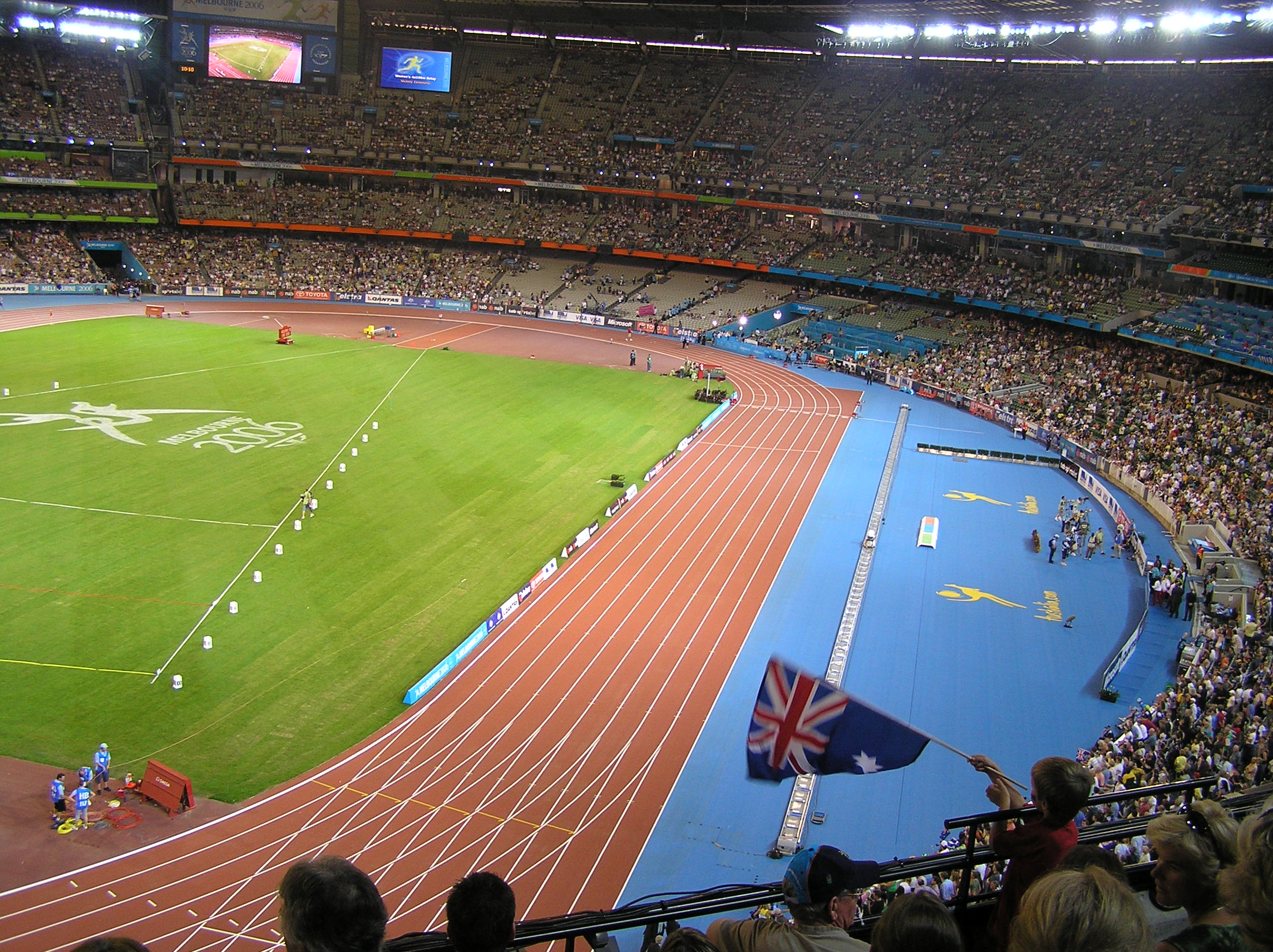 The MCG Comm